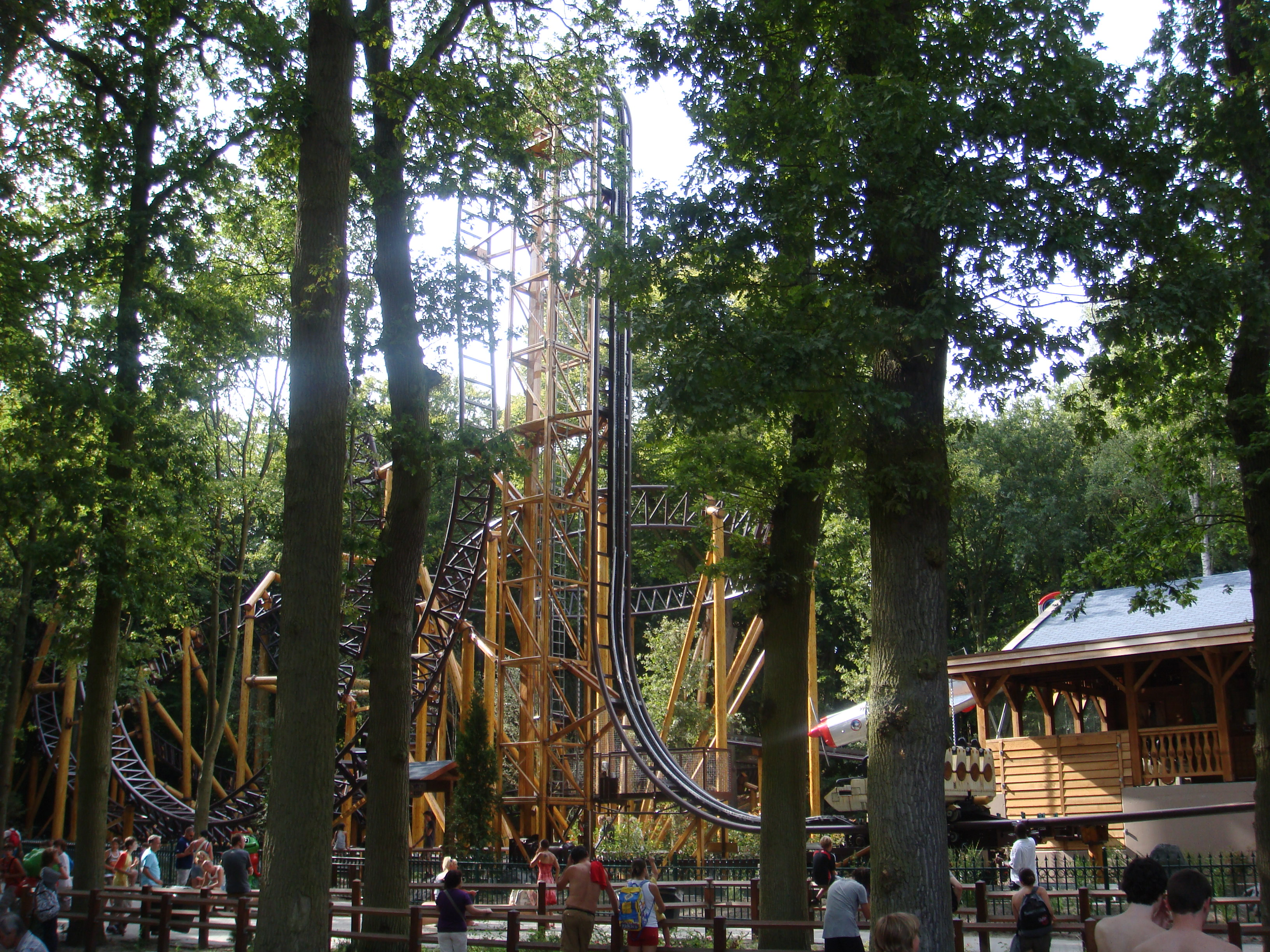 The roller coaster "Falcon" in the Dutch amusement park Duinrell.